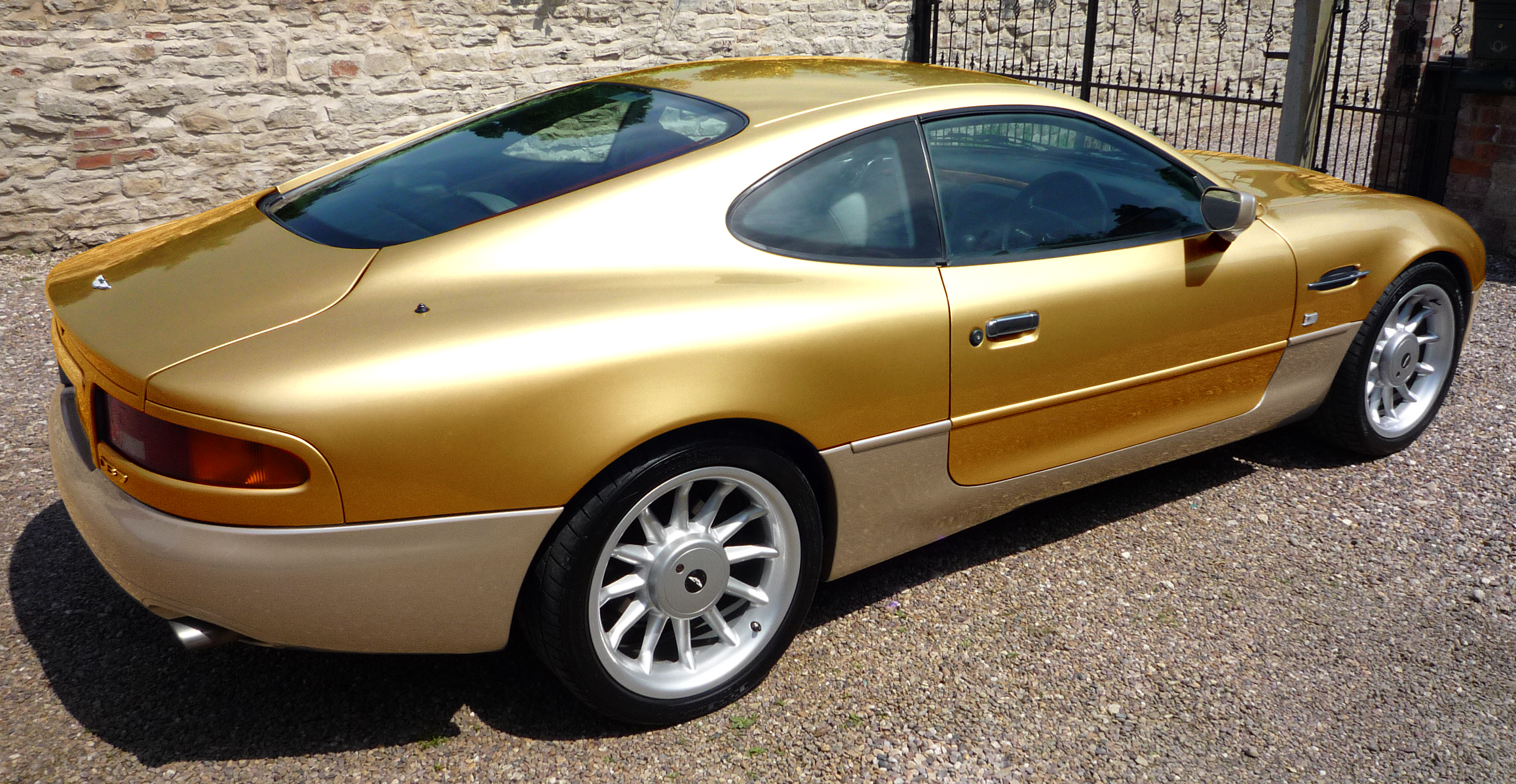 Gold Aston Martin DB7